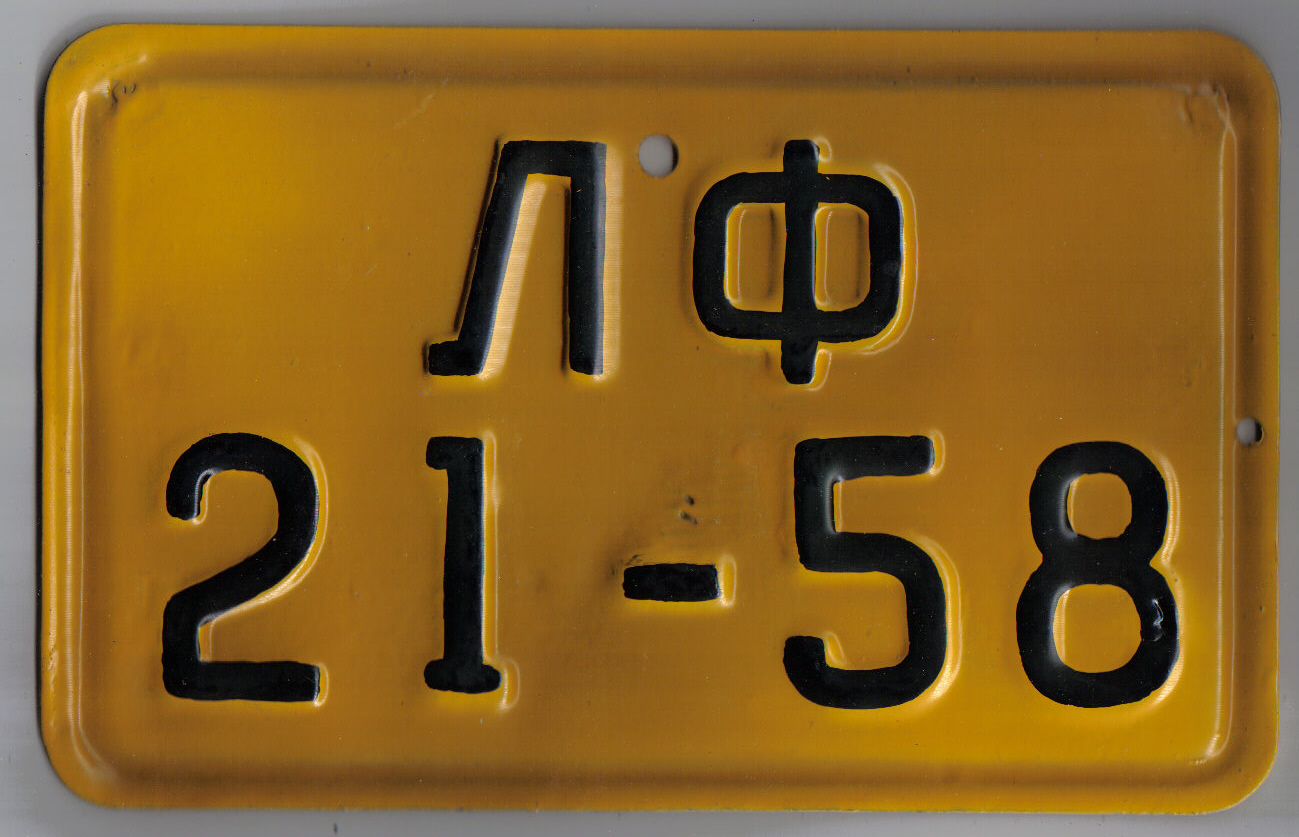 Soviet motorcycle plate issued after World War II.